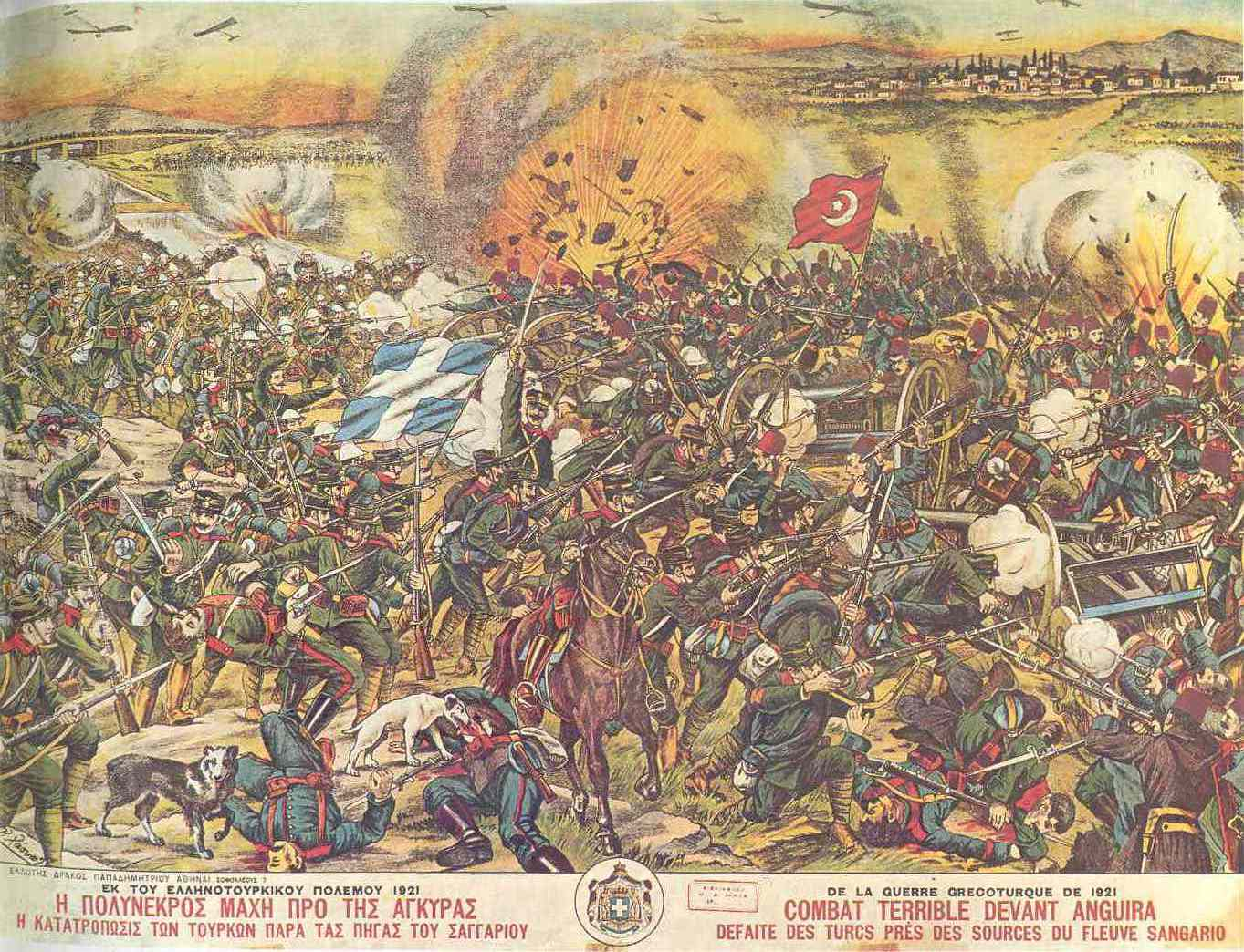 Greek painting that depicts the Battle of Sakarya, 10-29 August 1921.